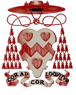 Coat of arms of the British John Henry Newman, Cardinal of the Roman Catholic Church. NOTE: the coat of arms of Cardinal Newman is gold (yellow) and not white. Source indicating that it is yellow: Window with the arms of Newman., photograph of the clothing Newman